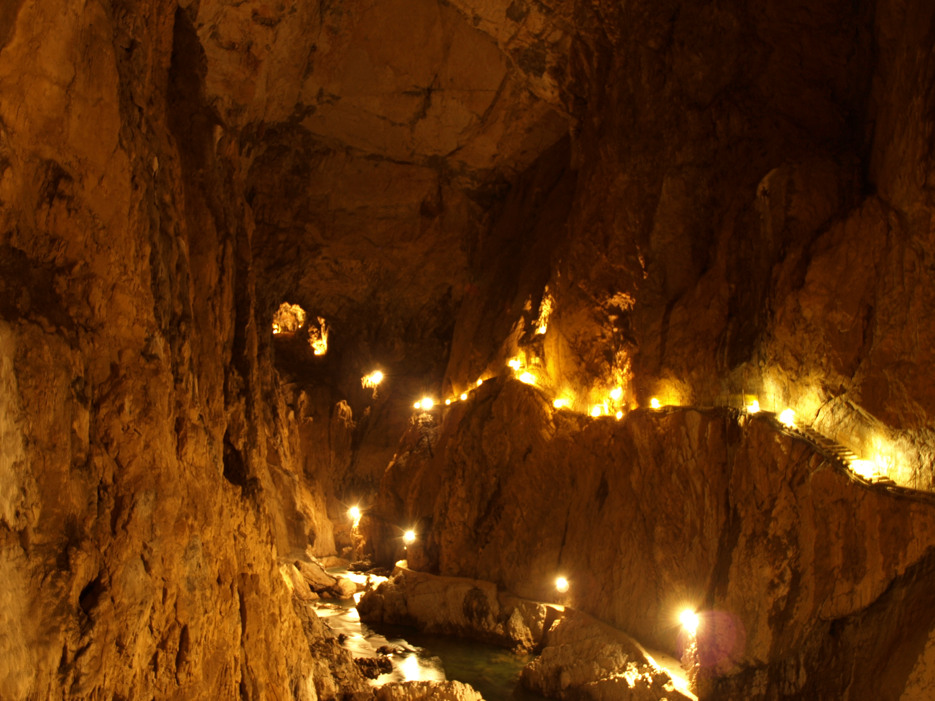 A photograph taken inside the Škocjan Caves in Slovenia. It is taken in the part of the cave that the river runs. The photo is a bit overexposed.